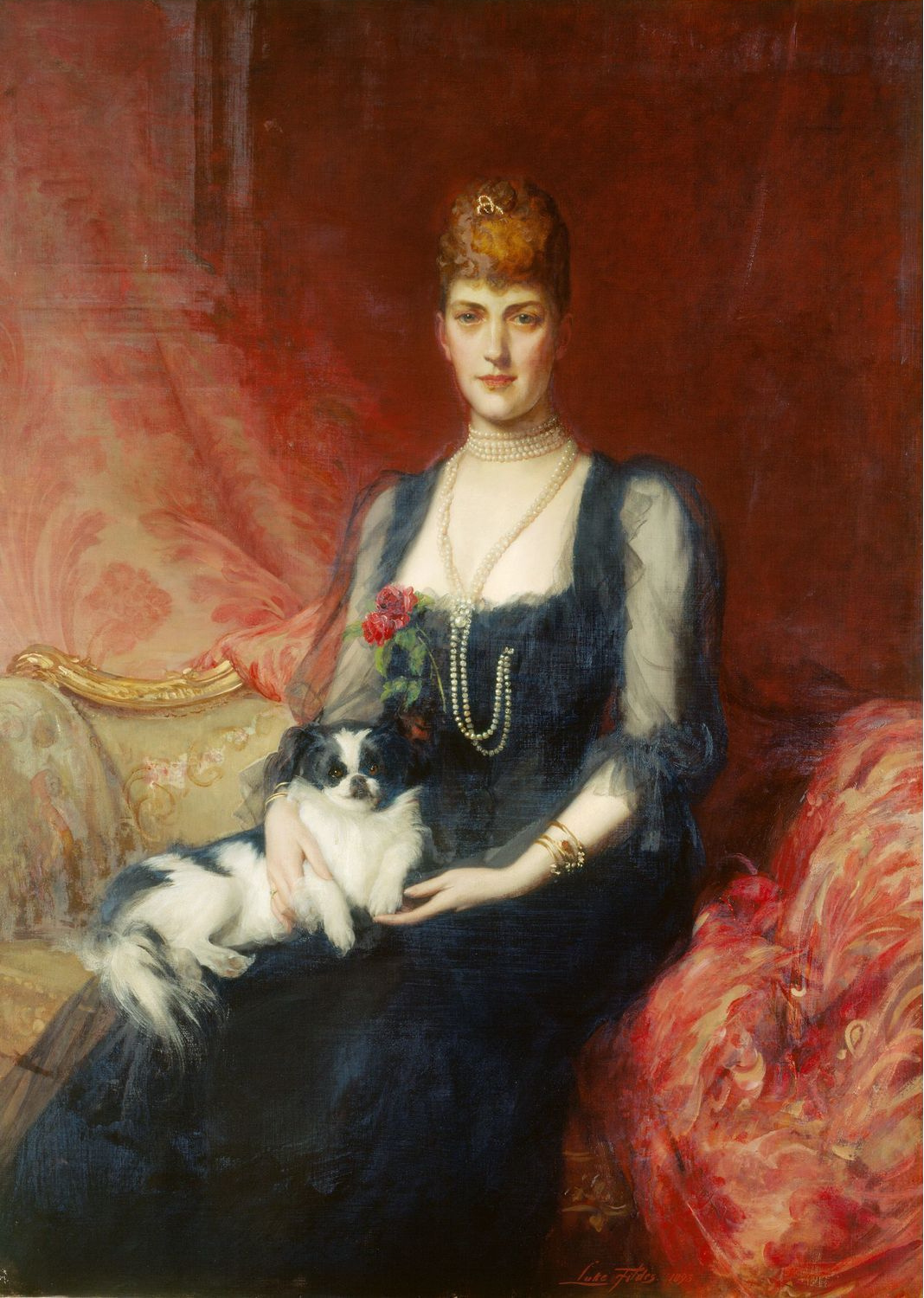 Portrait of Queen Alexandra, when Princess of Wales, with Facey